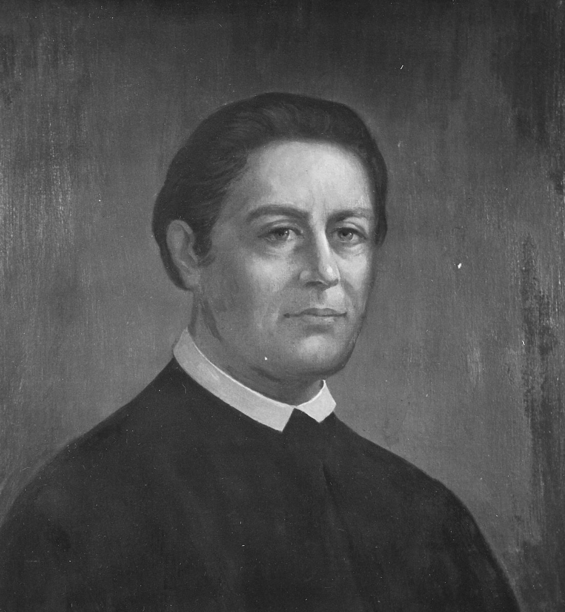 Portrait of Rev. John W. Beschter, president of Georgetown University